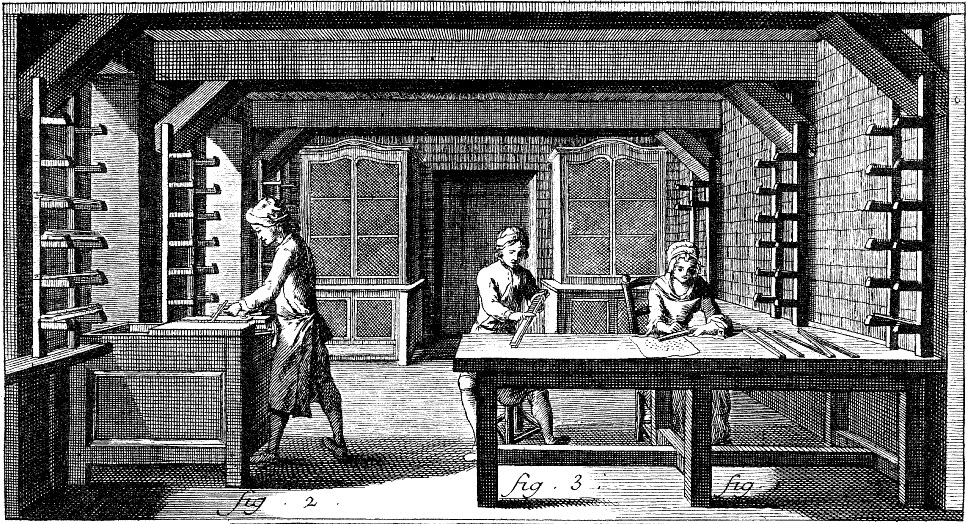 Refining printing types